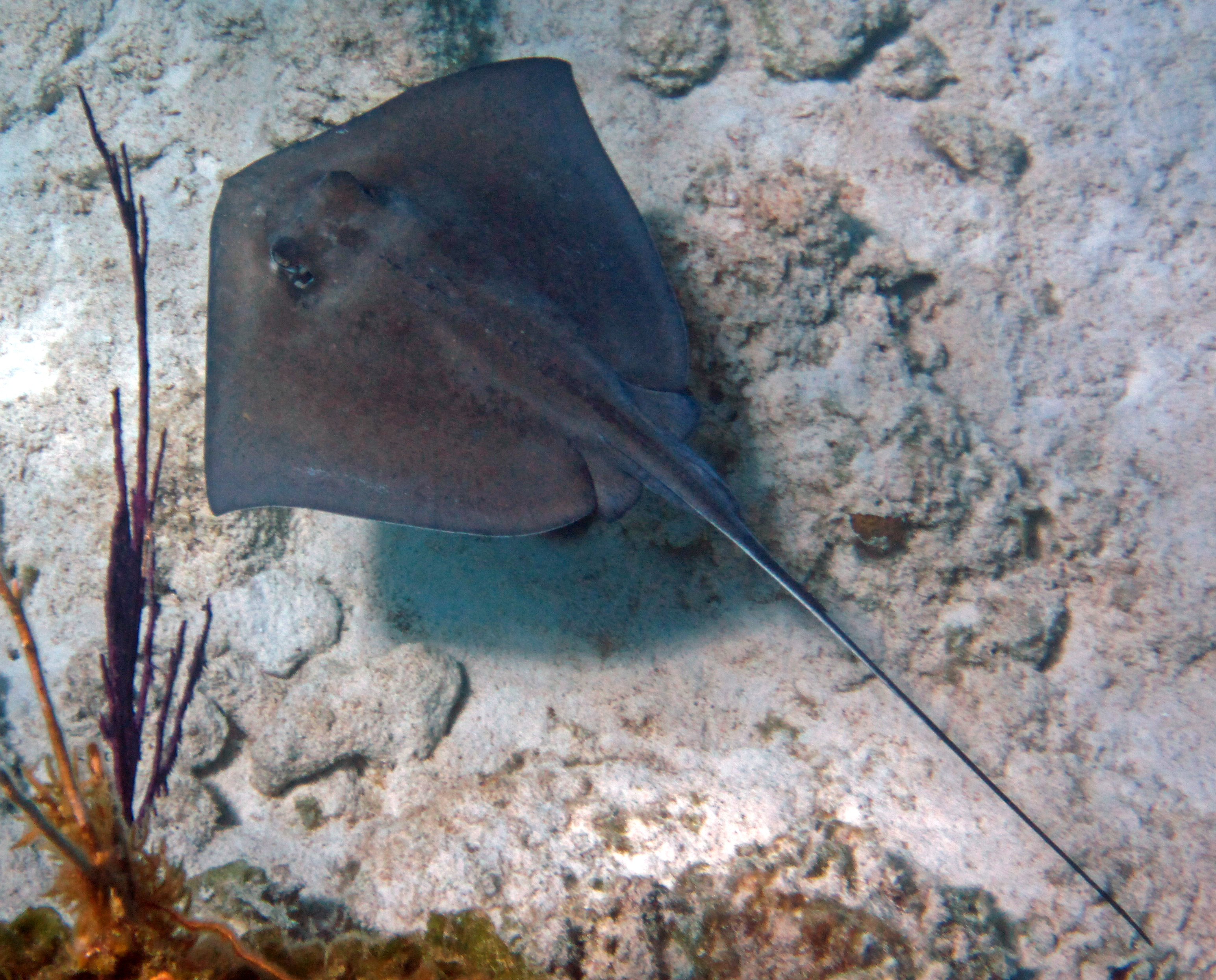 Dasyatis americana (Hildebrand & Schroeder, 1928) - southern stingray next to a patch reef. Classification: Animalia, Chordata, Vertebrata, Chondrichthyes, Myliobatiformes, Dasyatidae Locality: Snapshot Reef, Fernandez Bay, offshore western San Salvador Island, eastern Bahamas